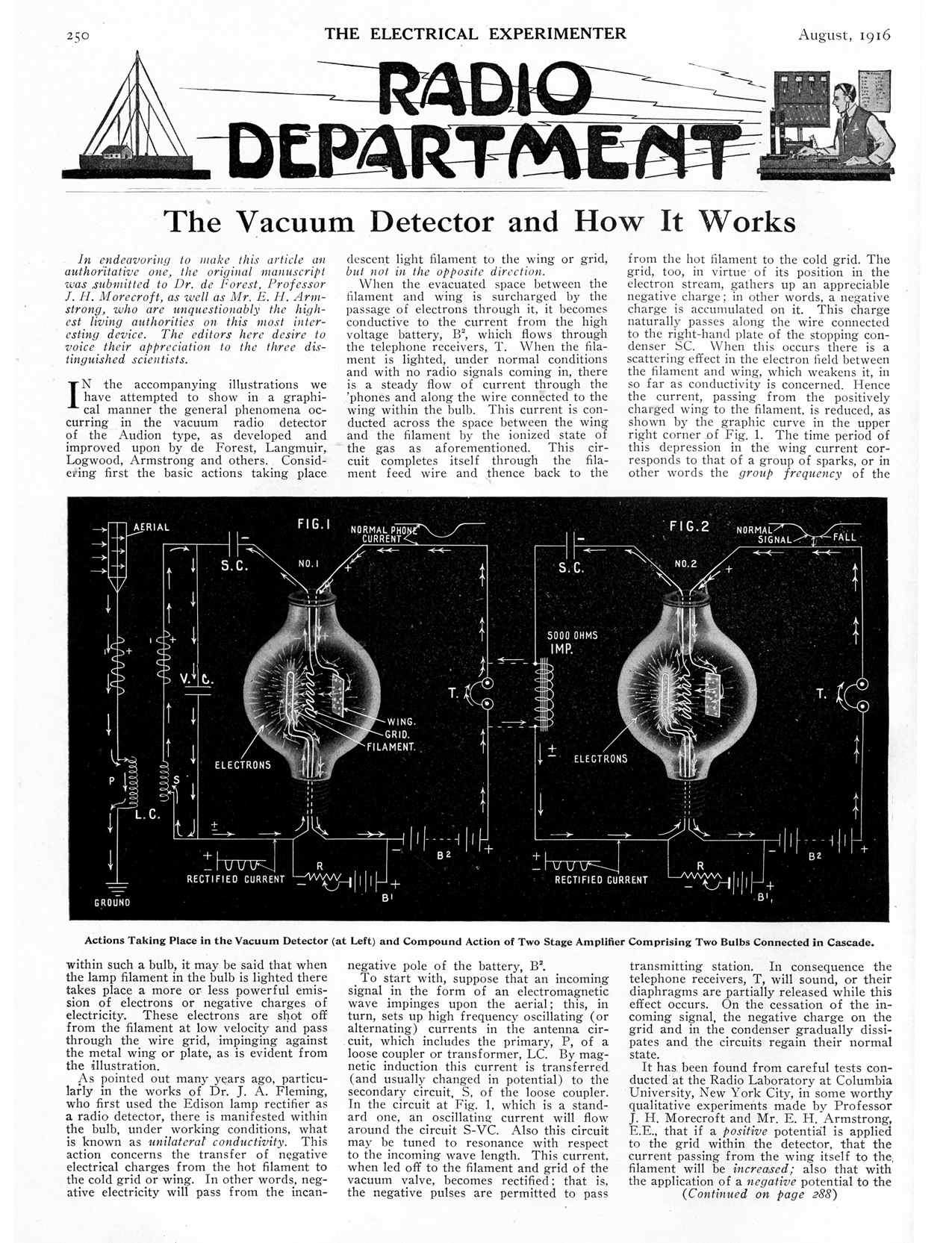 The Electrical Experimenter, August 1916. Volume 4 Number 4. The page numbers were on an annual base, not per issue. This issue had pages 225 to 304. Page 250 is shown. The Vacuum Detector and How It Works The second part of the vacuum detector article can be found here Image:Electrical Experimenter Aug 1916 pg288.png An advertisement for the De Forest Audion is on page 228 Image:Electrical Experimenter Aug 1916 pg228.png